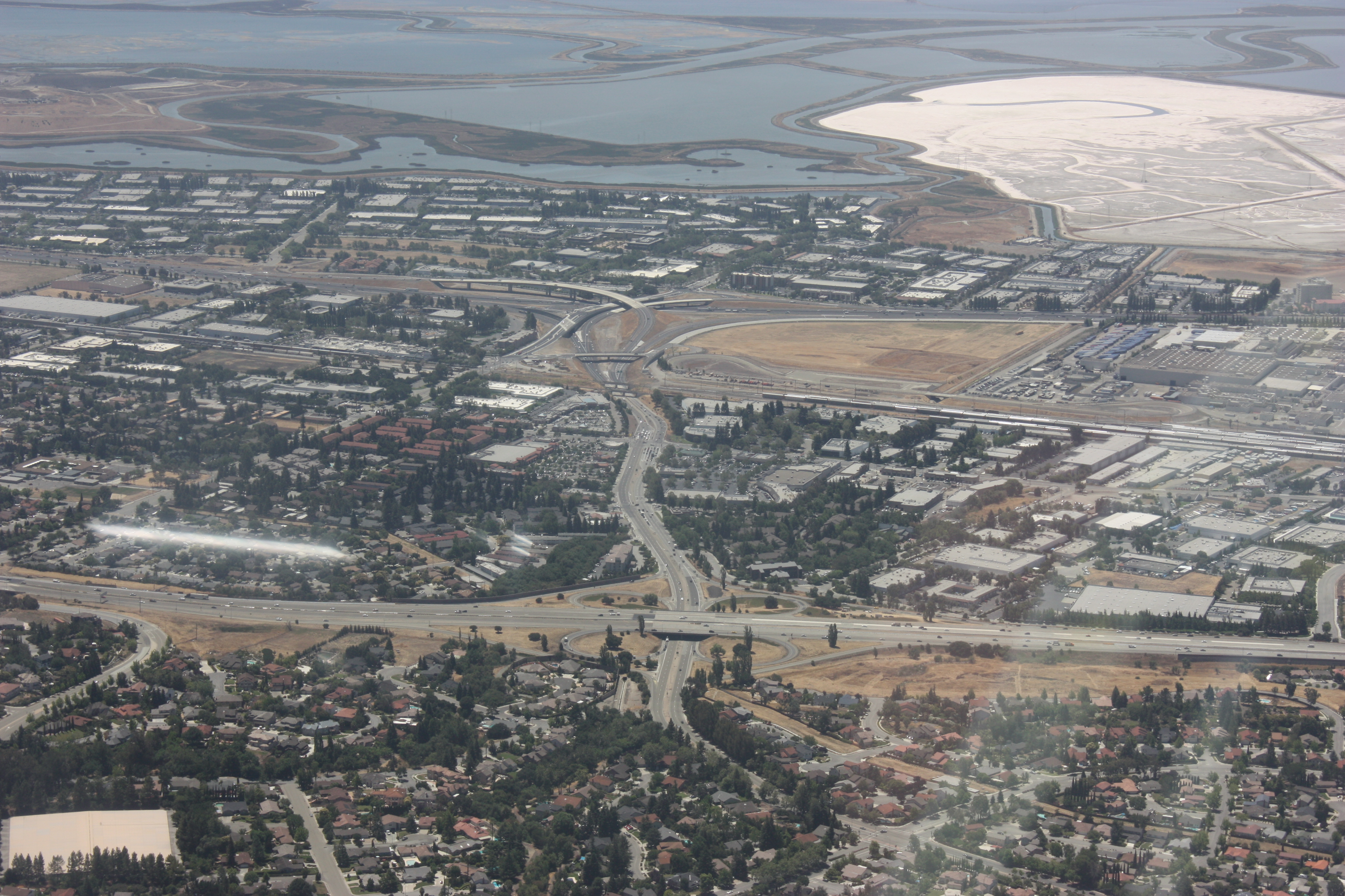 Aerial photo California State Route 262, also known as Mission Boulevard, in Fremont, Alameda County, California. It is a 1-mile long connector road between Interstate 880 (top in this view) and Interstate 680 (bottom in this view). The image has some reflections from sunlit surfaces inside the aircraft on the left and right sides. Trivia: this photo was taken at the minute of the 40th anniversary of the Apollo 11 moon landing.